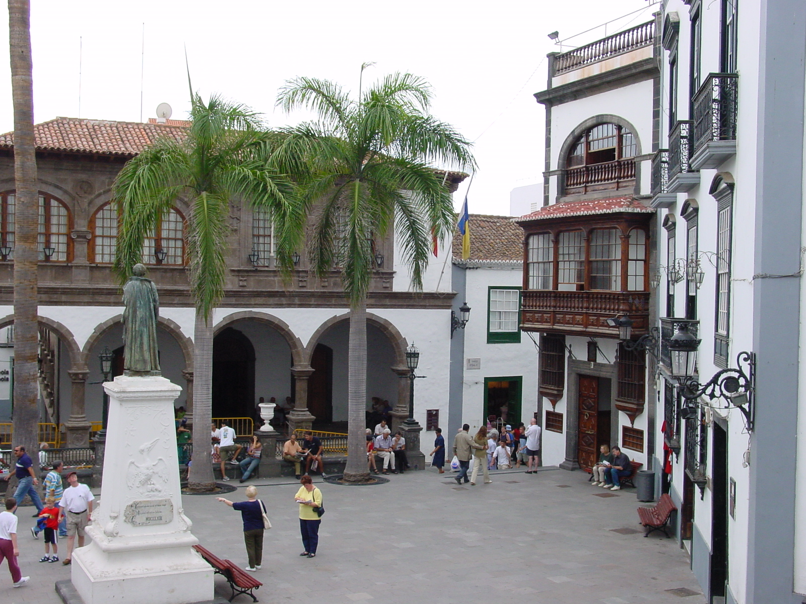 “Plaza de España” town hall square of Santa Cruz de La Palma.